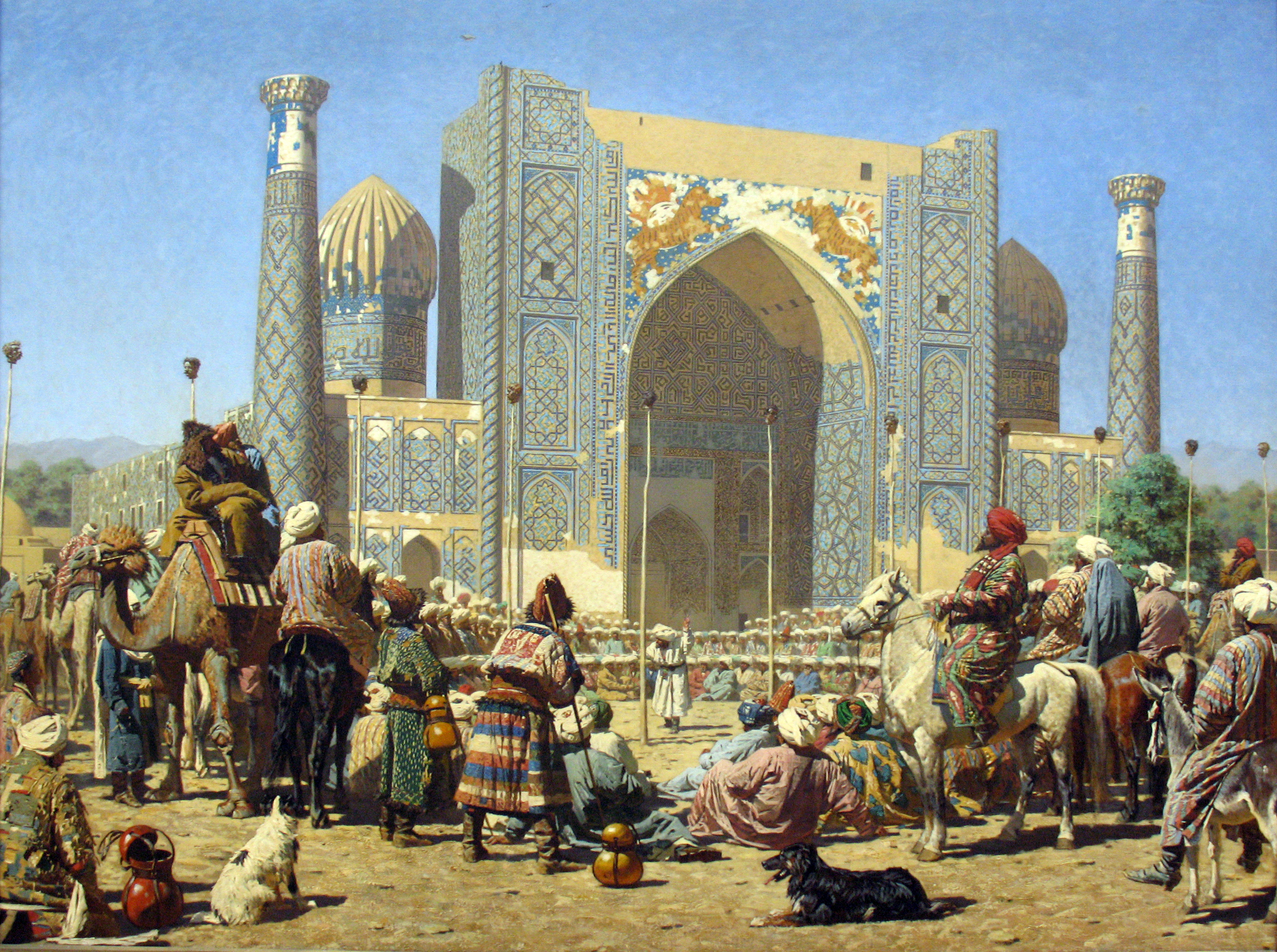 Central Asia, Samarkand, Registan. A celebration of victory over an enemy. The Emir of Bukhara and the notables of the city watch how the heads of Russian soldiers are impaled on poles.